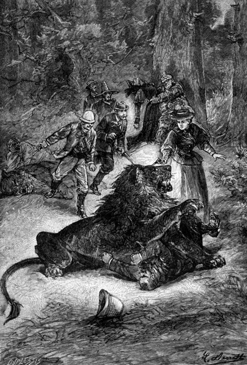 An ilustration from the novel "Clovis Dardentor" by Jules Verne drawn by Léon Benett.